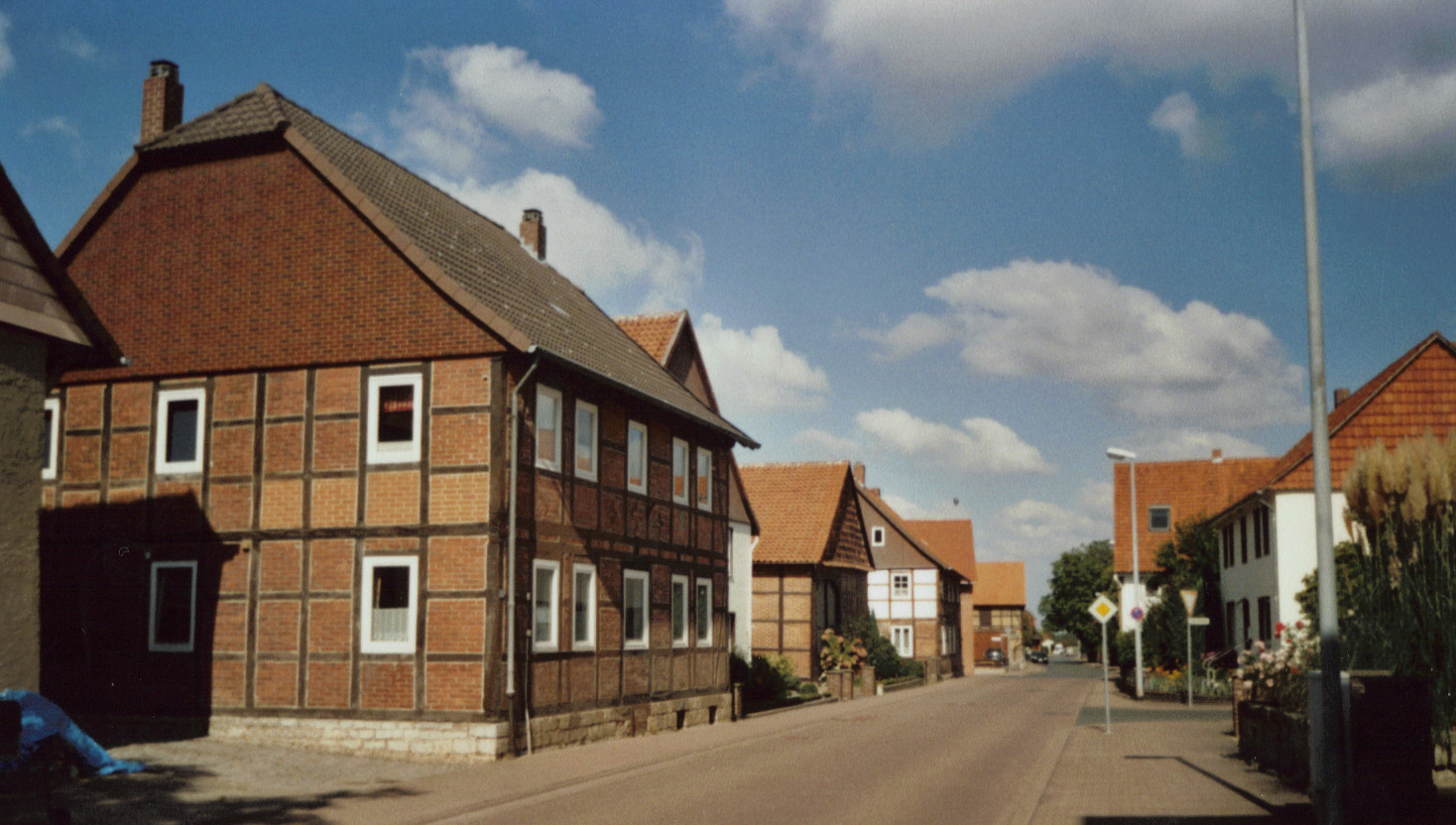 Sorsum (Hildesheim), Main Street